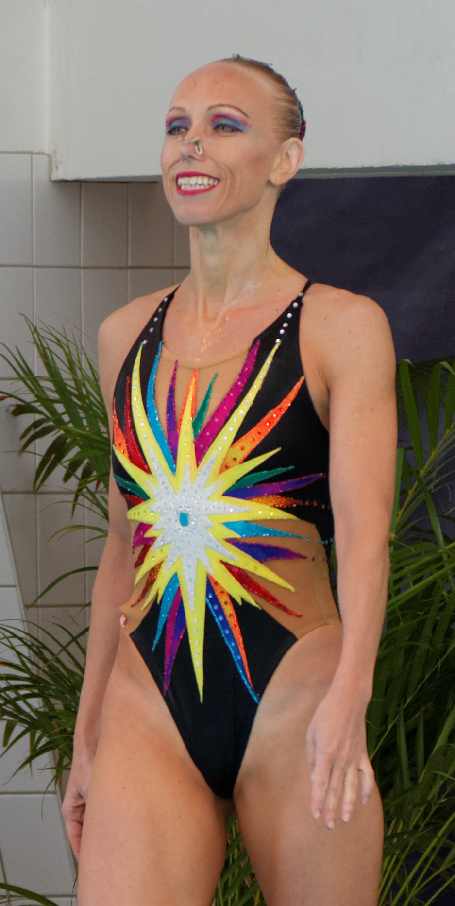 Sona Bernardova and Alzbeta Dufkova, duet technical routine, Open Make Up For Ever.